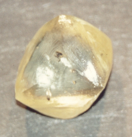 The Oppenheimer Diamond, named after Ernest Oppenheimer, a gold mining entrepreneur, is one of the biggest uncut diamonds. This diamond is a nearly perfectly-formed yellow diamond crystal weighing about 253.7 carats (50.74 g). It measures approximately 20 × 20 millimeters and was discovered in 1964 at the Dutoitspan Mine, Kimberly, South Africa.